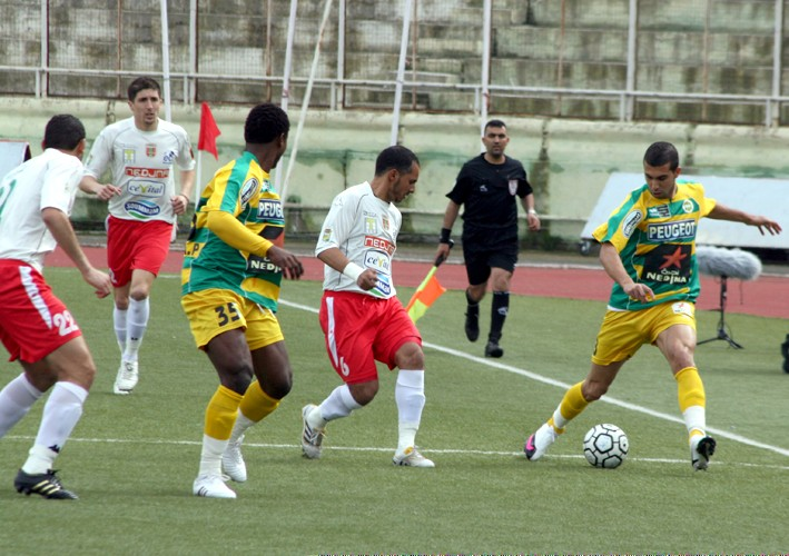 Photography done by myself (Clapsus) of the Derby of Kabylie between JS Kabylie and JSM Béjaia in Stade 1er Novembre (Tizi Ouzou) the february 27th 2010.